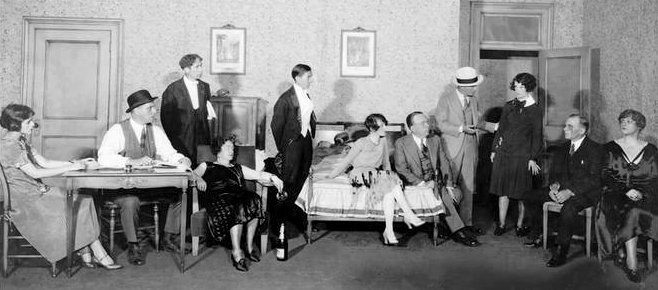 Photograph of the the Broadway production of The Butter and Egg Man, starring Gregory Kelly (standing center) Caption reads, "The Butter and Egg Man throws a party"